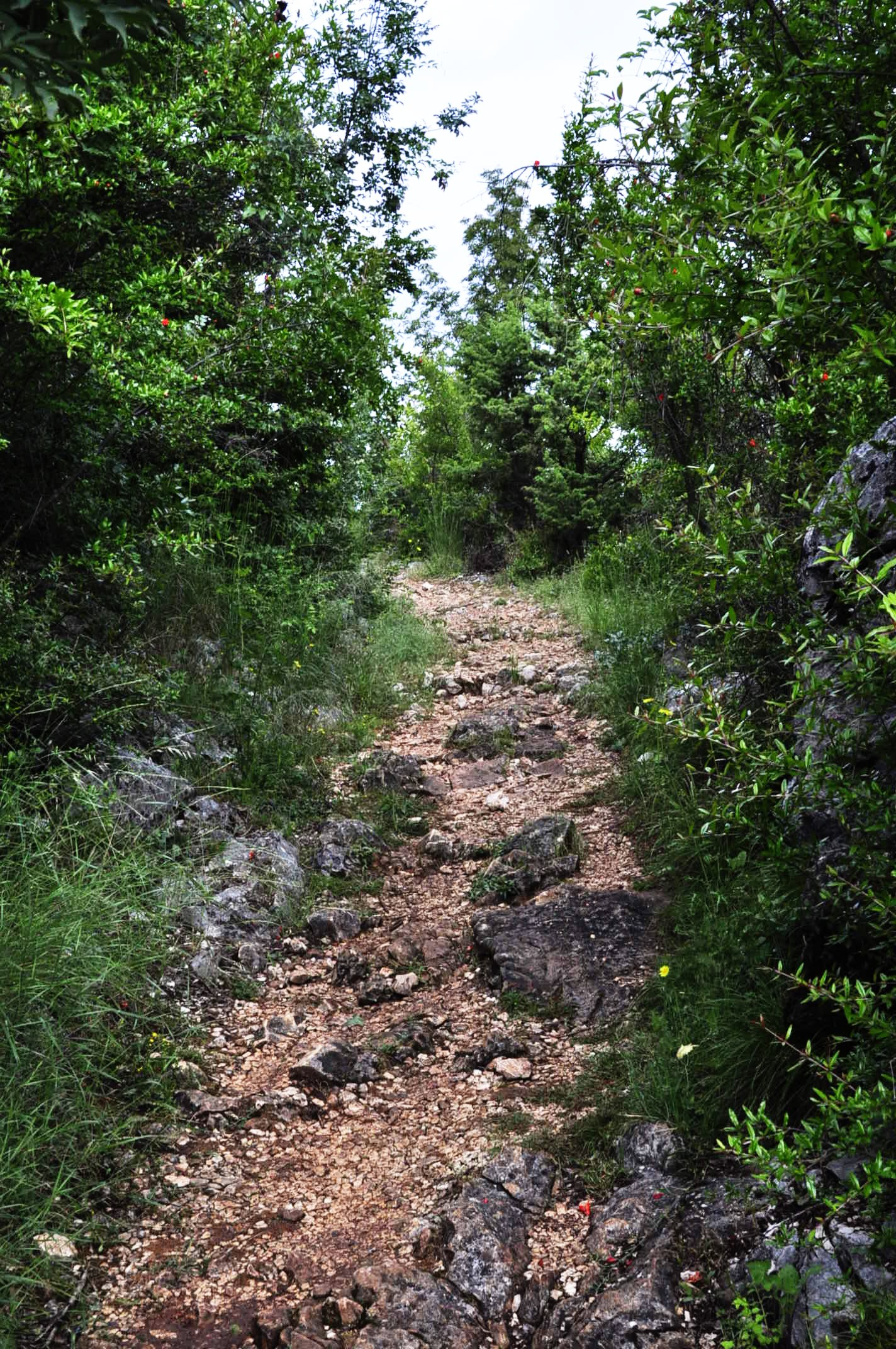 medjugorje bosnia herzegovina apparitions virgin mary roman catholic pension pansion porta travel creative commons cc gnuckx panoramio flickr map geotag wiki wikipedia